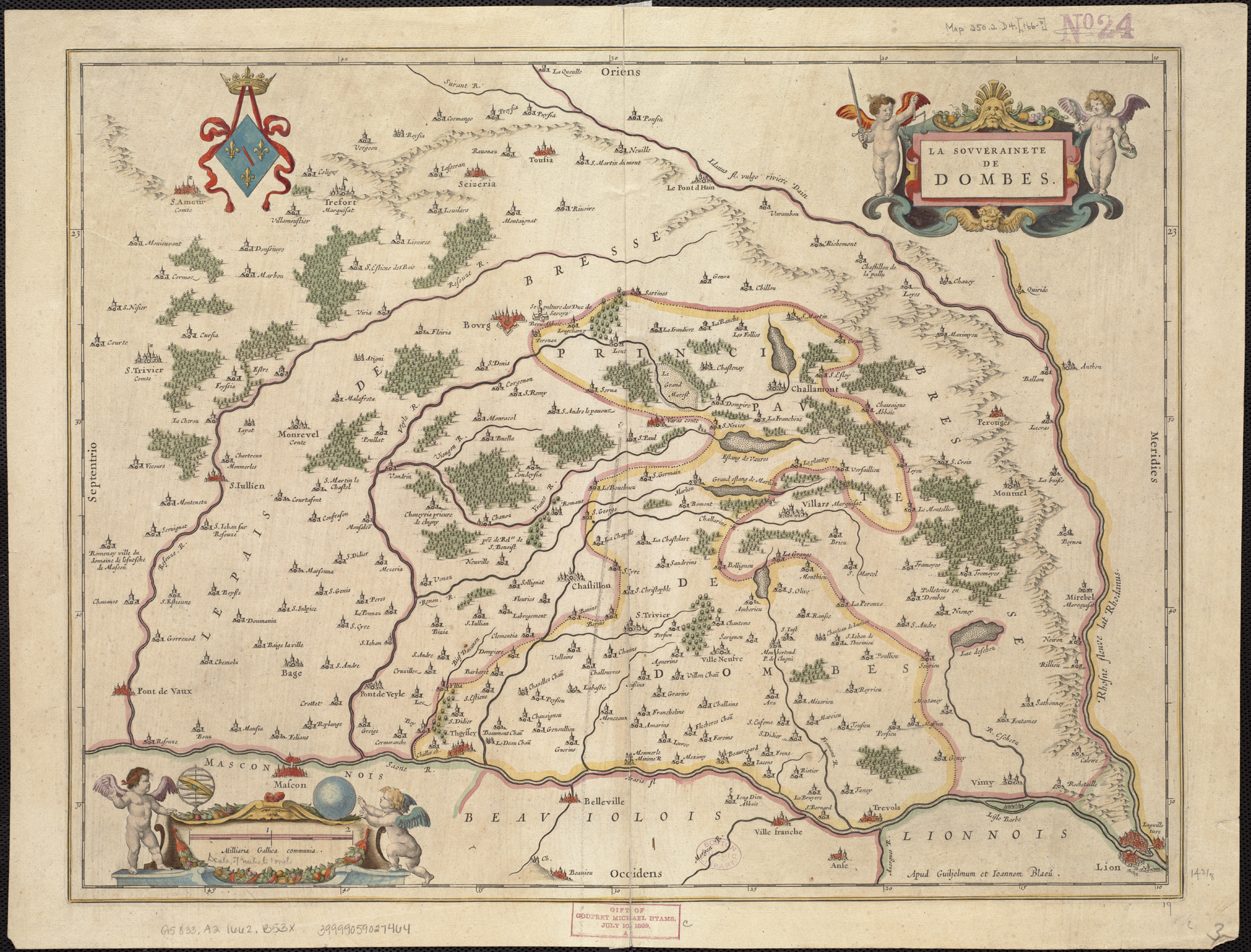 Zoom into this map at . Author: Blaeu, Willem Janszoon Publisher: Blaeu, Joan Date: 1662 Location: Ain (France), Dombes (France) Dimension: 37x49cm Scale: ca. 1:44,350 Call Number: G5833.A2 1662 .B53x